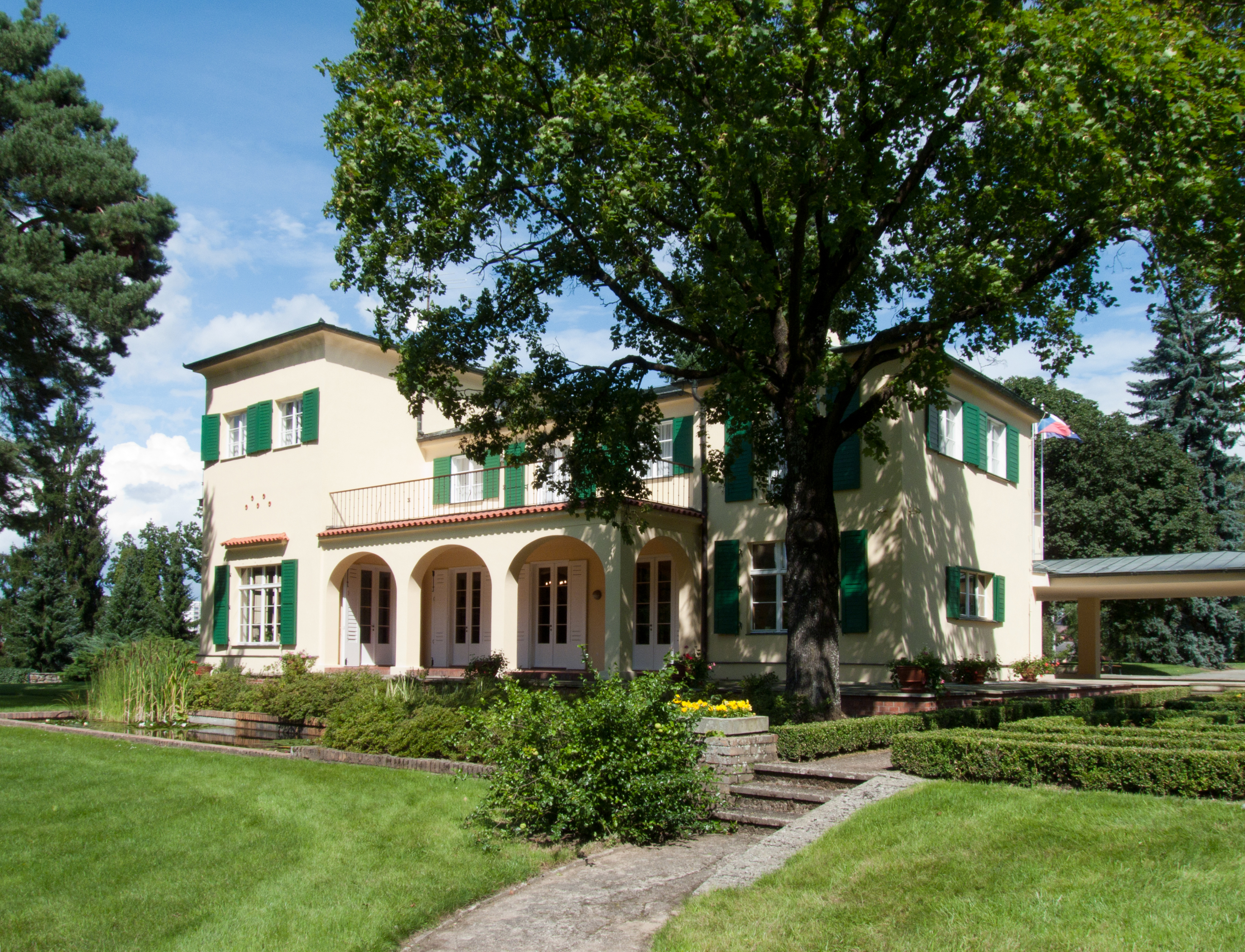 Beneš villa (private house owned by the second Czechoslovak president Edvard Beneš) in Sezimově Ústí, Czech Republic, as seen from the south